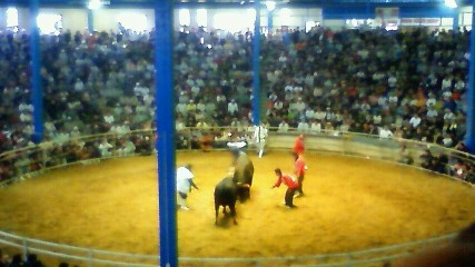 Traditional bullfighting (two bulls head to head), Tokunoshima, Japan.